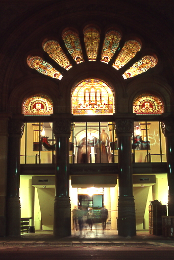 Queen Victoria Building, Sydney, photo by Sardaka 10:30, 9 August 2007 (UTC)